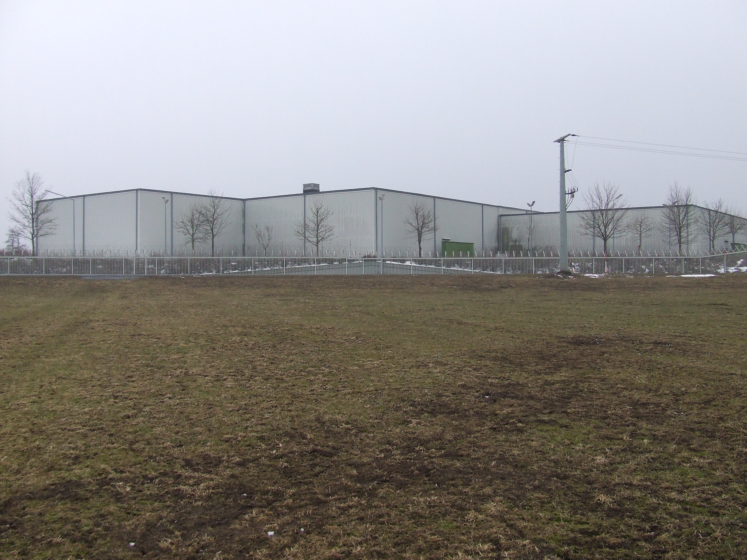 Storage building Mitterteich